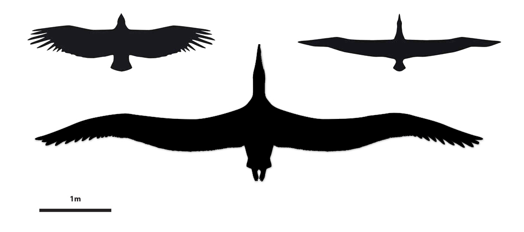 Pelagornis sandersi compare size with Vultur gryphus & Diomedea exulans